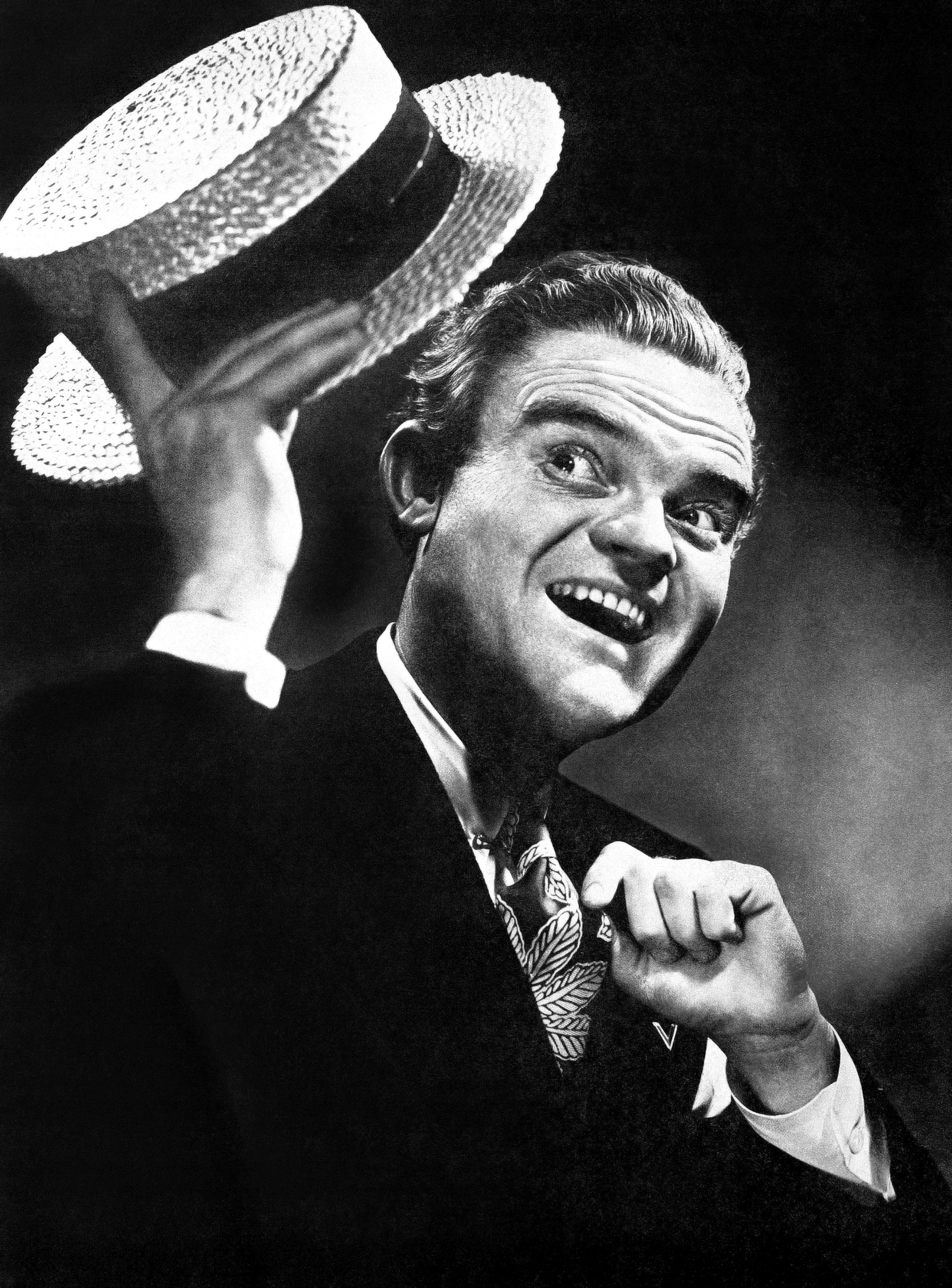 Photo portrait of American bandleader Spike Jones in a suit holding a straw hat.